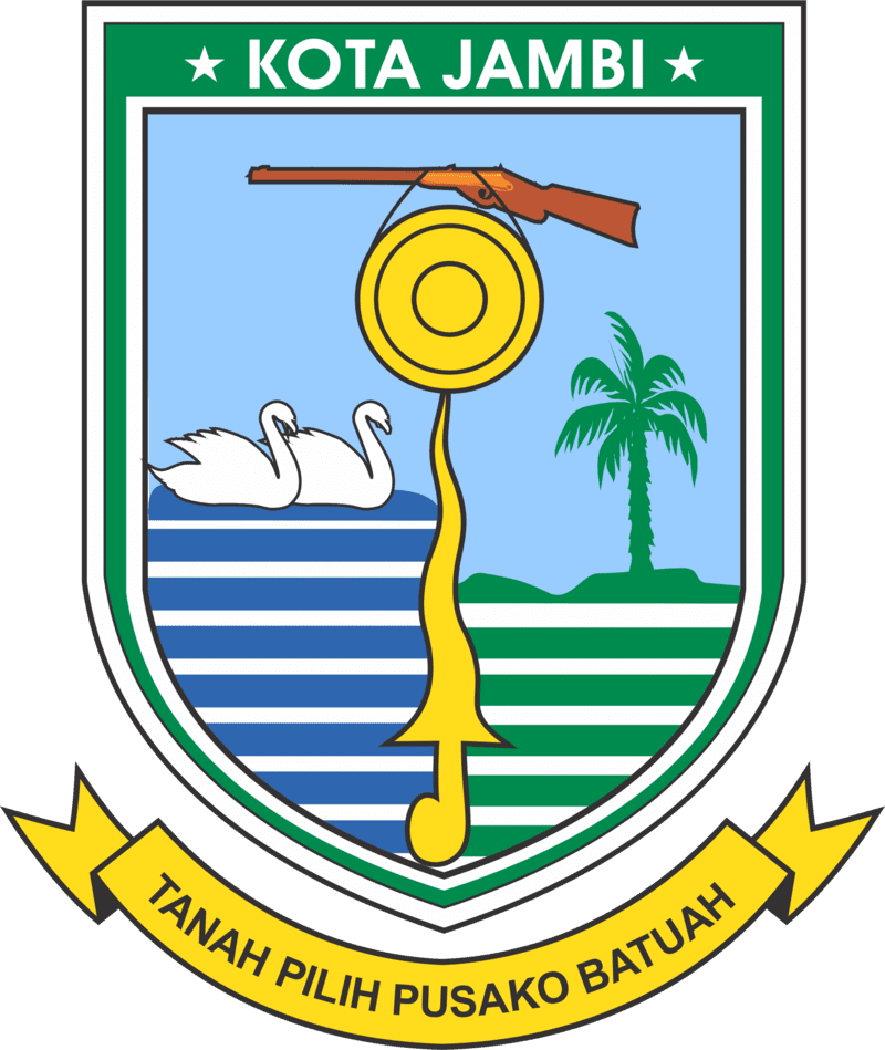 Coat of Arms, or Shield, (Lambang) of City (Kota) of Jambi in Jambi Province, Indonesia